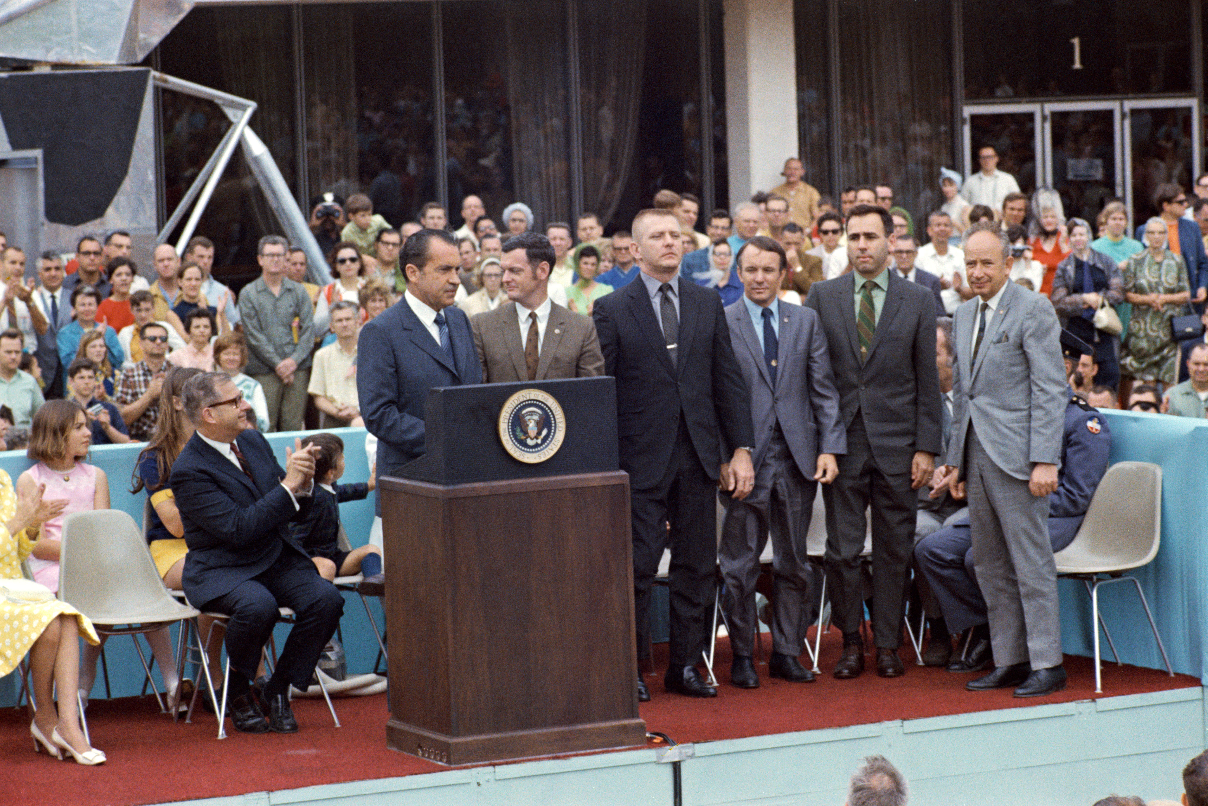 President Richard M. Nixon introduces Sigurd A. Sjoberg (far right), director of Flight Operations at Manned Spacecraft Center, and the four Apollo 13 flight directors during the President's post-mission visit to the Manned Spacecraft Center. The flight directors are, from left to right, Glynn S. Lunney, Eugene F. Kranz, Gerald D. Griffin and Milton L. Windler. Dr. Thomas O. Paine, Administrator, National Aeronautics and Space Administration, is seated at left. President Nixon was on the site to present the Presidential Medal of Freedom - the nation's highest civilian honor - to the Apollo 13 Mission Operations Team.